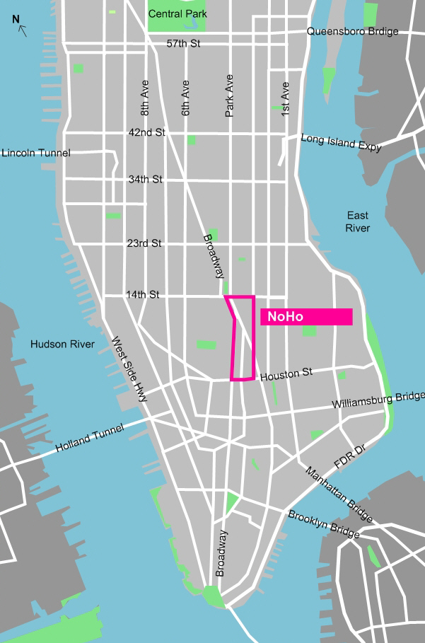 location map of NoHo in Manhattan, New York City